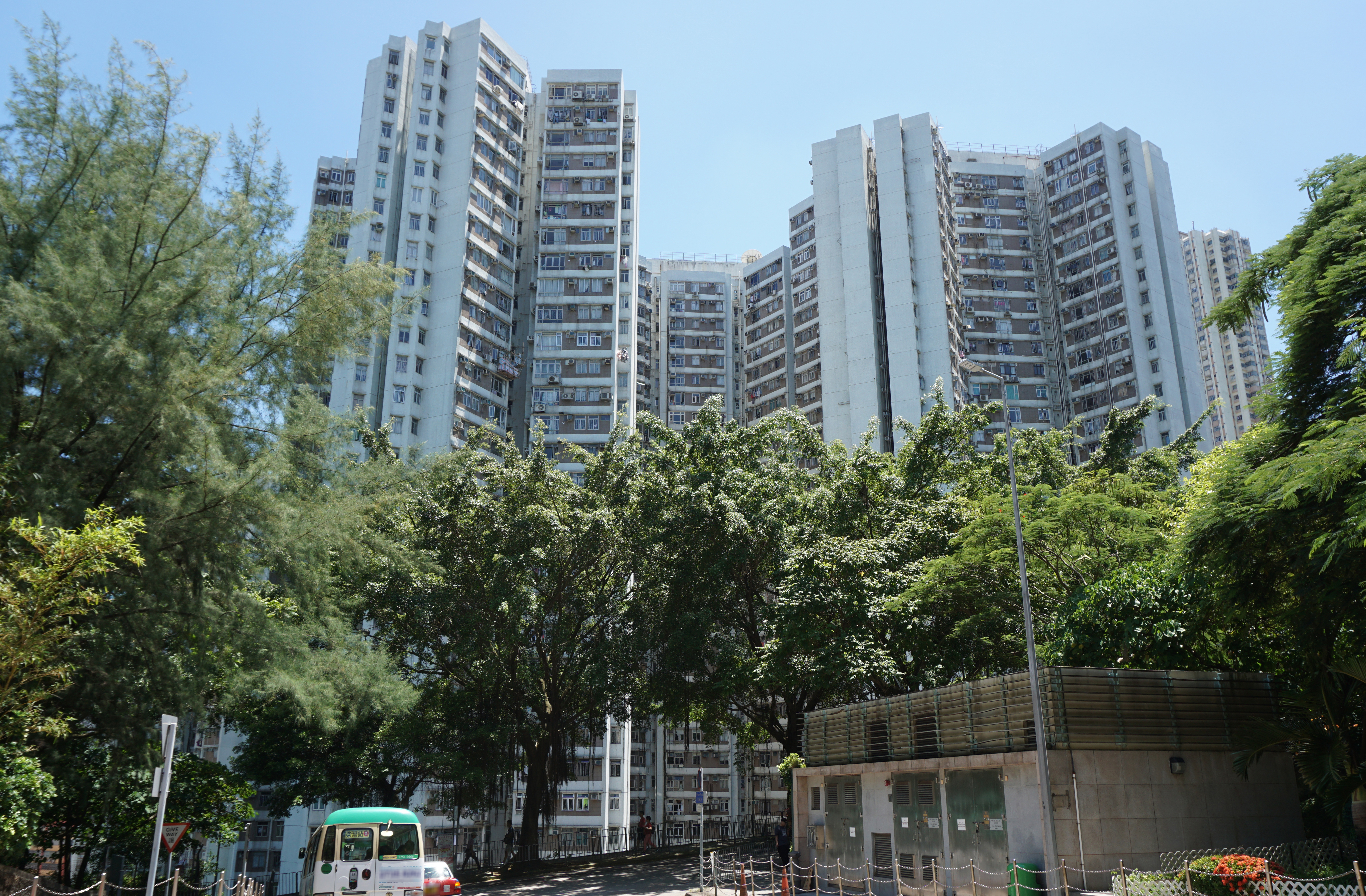 Neptune Terrace in CChai Wan, Hong Kong.